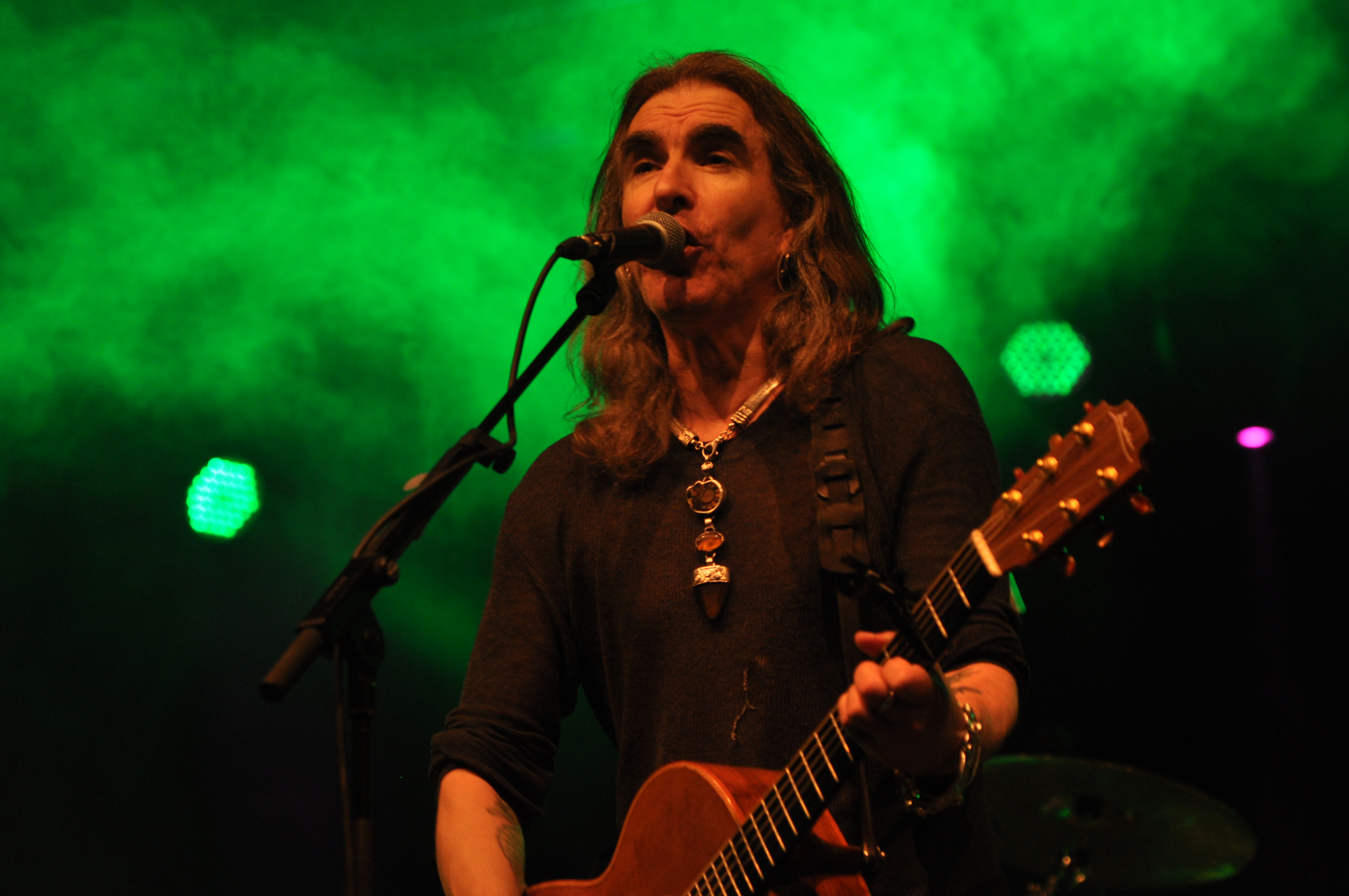 New Model Army, appearence at the 1st blacksheep festival in the castle yard / castle park of Bad Rappenau - Bonfeld (Germany)